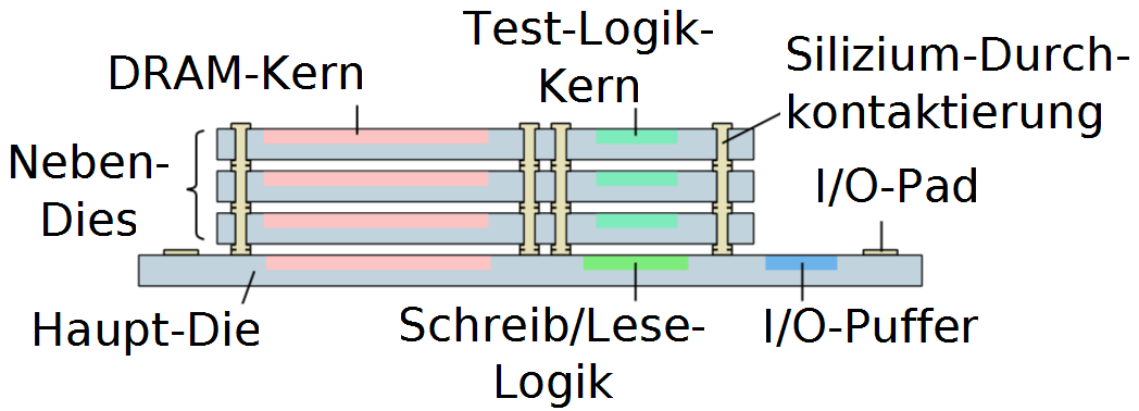 3DS die stacking concept model Made by uploader (ref:JEDECが「DDR4」とTSVを使う「3DS」メモリ技術の概要を明らかに) Upload Date:2011-11-11